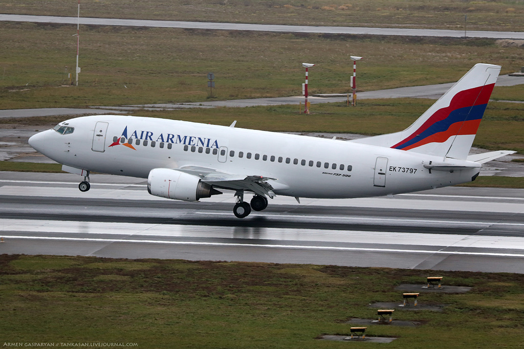 Air Armenia Aircraft